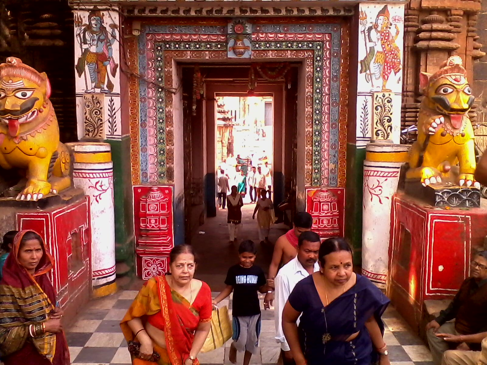 Lord Lingraj Temple with all the minar temples in the compound namely :- 1. Amania well, 2. Astmurti 3. Chandeswar Deb, 4. Gopaluni temple 5. Ladukeswar temple 6. Parbati temple, 7. Sabitri Devi temple 8. Sakreswar temple, 9. Sathidosi temple